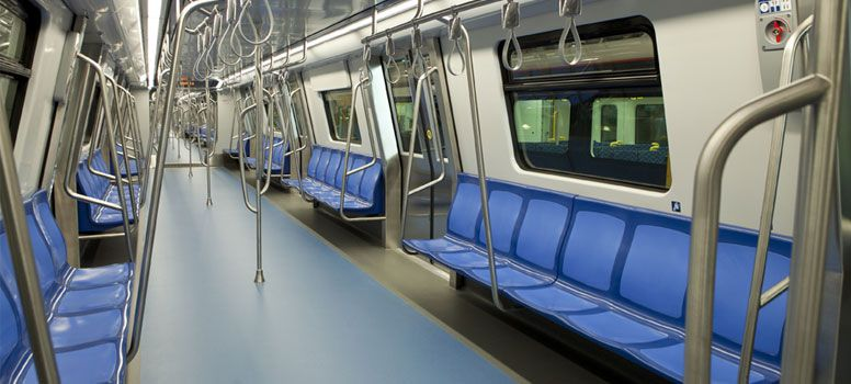 Interior of CAF train